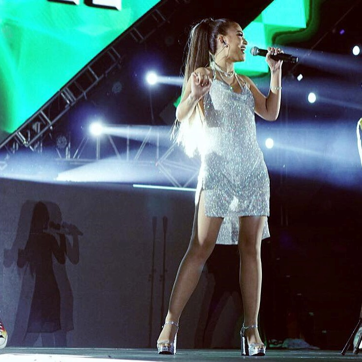 This is a photo of the recording artist named Adda Angel performing at the Smart MEGA Concert in Phnom Penh, Cambodia on 9 December, 2017.